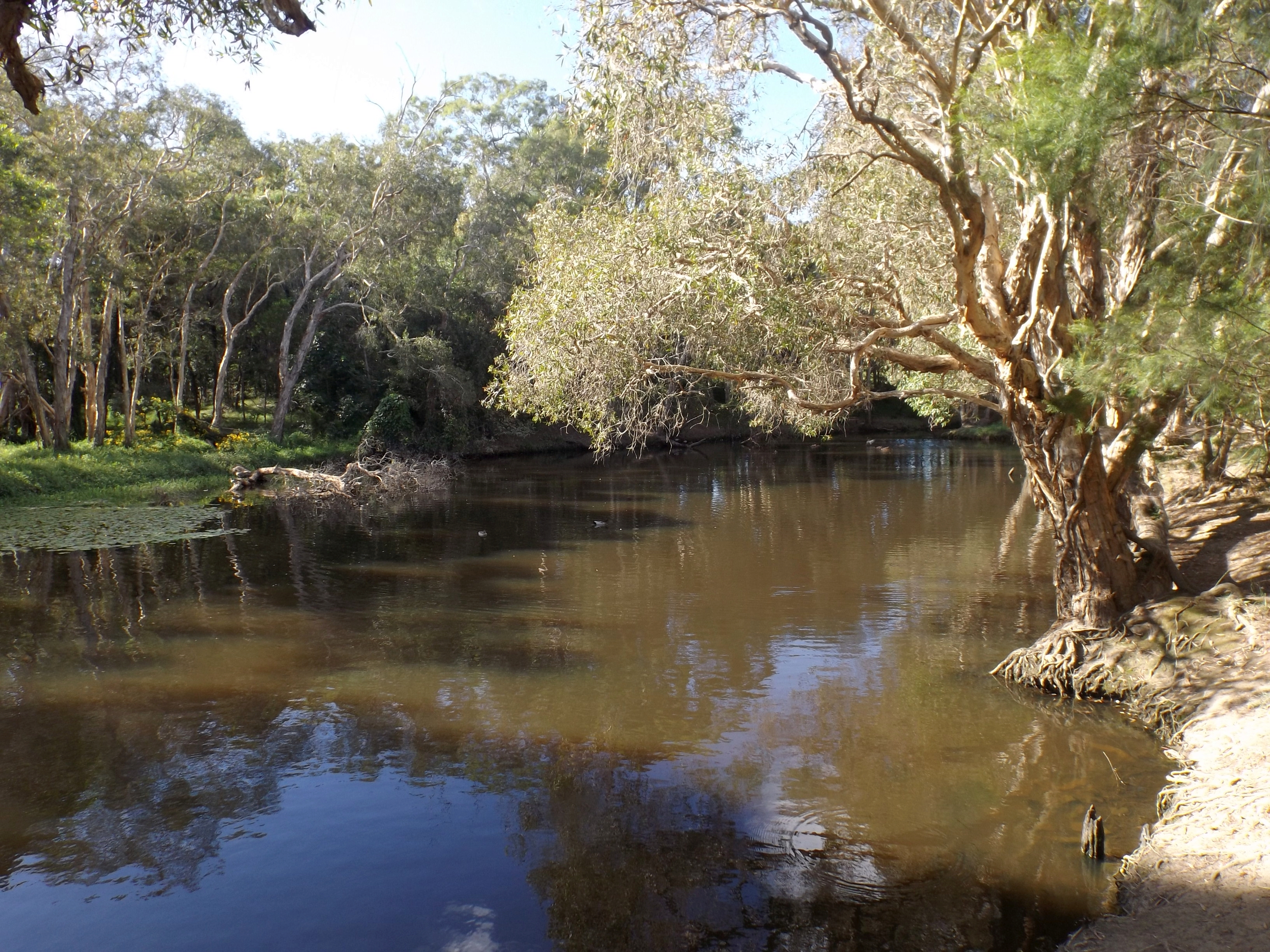 Photo of Hillards Creek at Ormiston Park in Ormiston, City of Redlands, Queensland, Australia. The far creek bank (left of image) is part of Wellington Point.